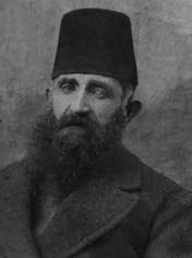 Ahmet Nüzhet Bey (Saraçoğlu)